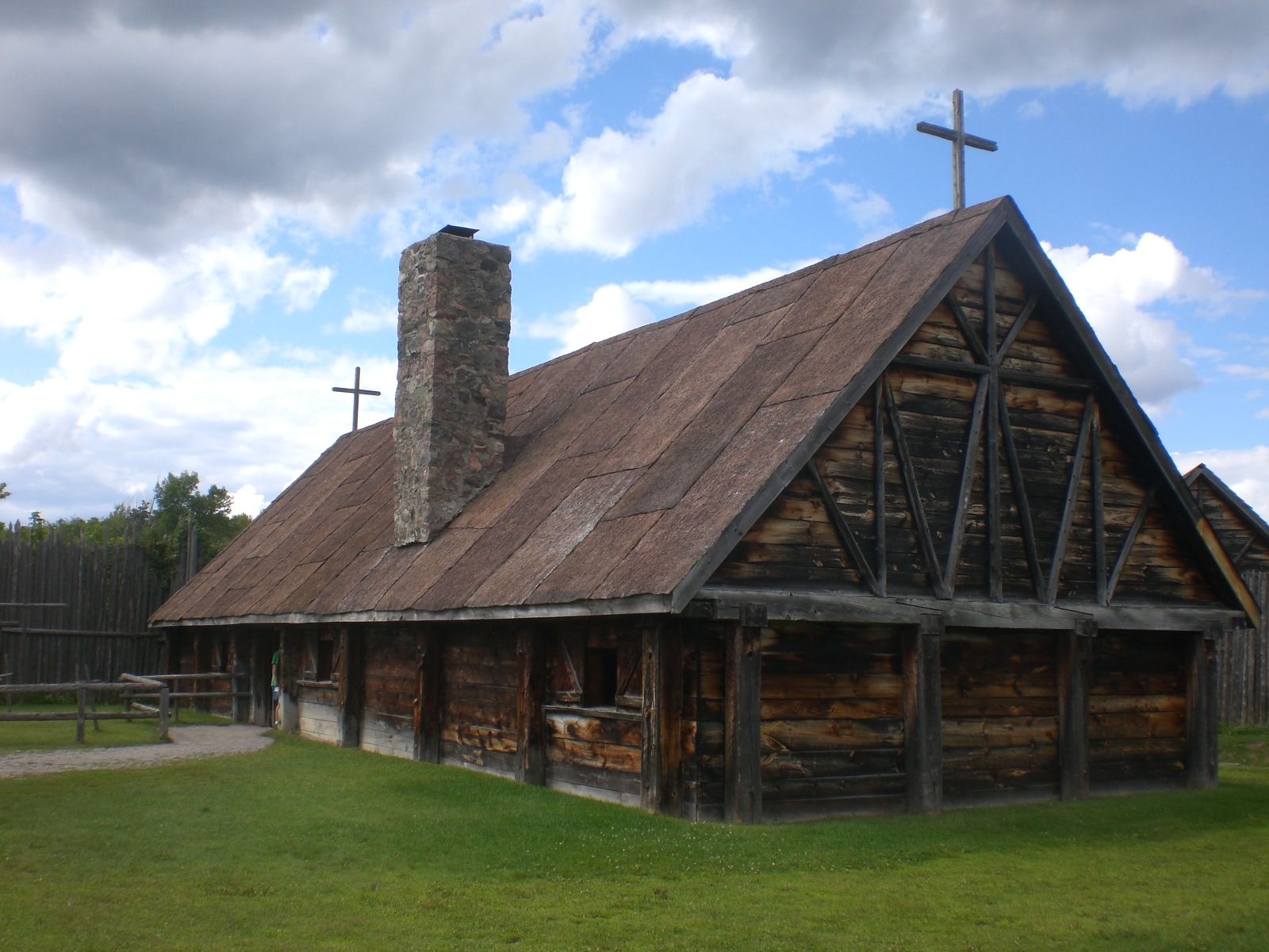 Native chapel exterior in Sainte-Marie among the Hurons